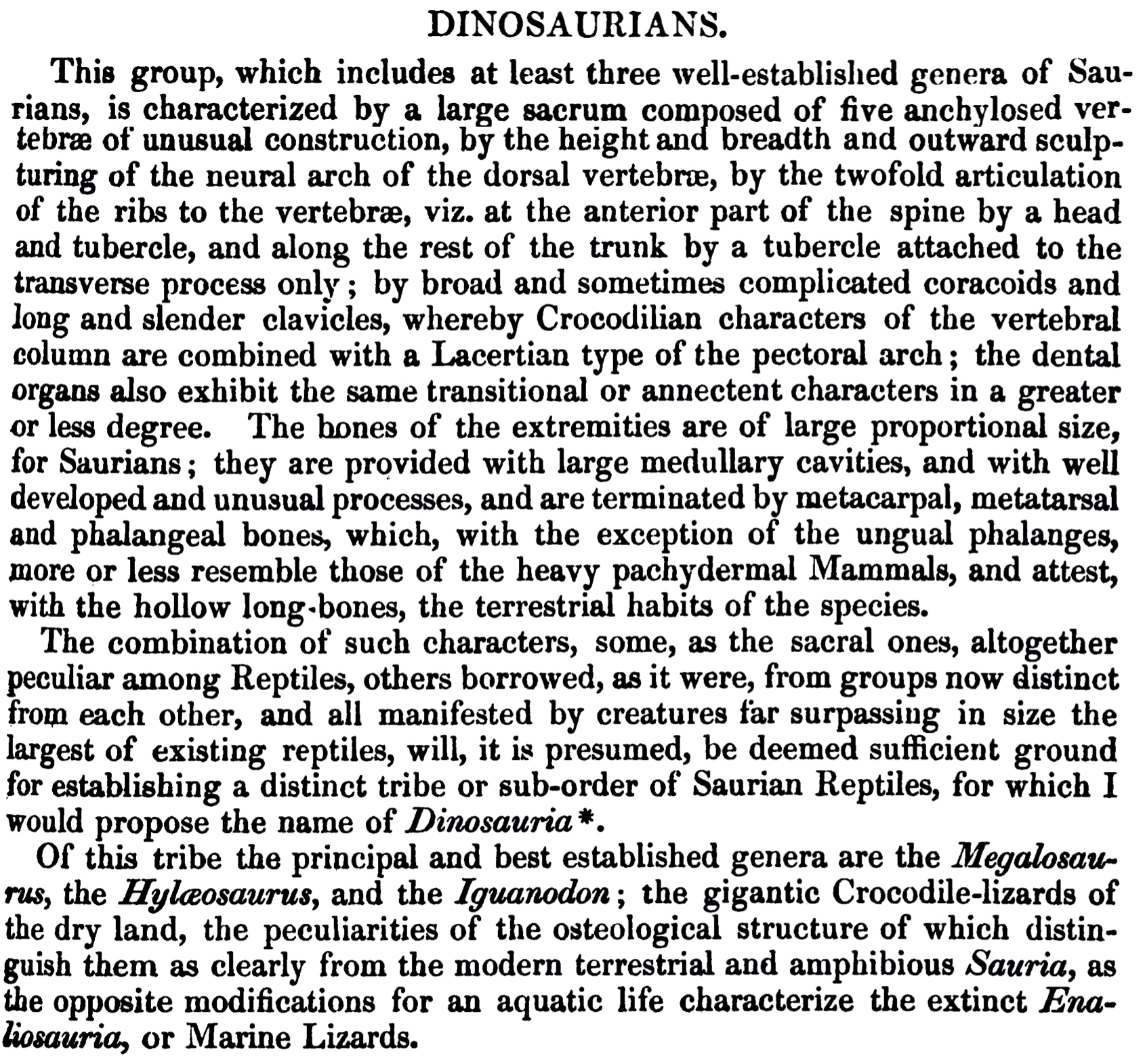 (1841). "Report on British fossil reptiles. Part II.". Report of the Eleventh Meeting of the British Association for the Advancement of Science; Held at Plymouth in July 1841: 60–204.; see p. 103. From p. 103: "The combination of such characters … will, it is presumed, be deemed sufficient ground for establishing a distinct tribe or sub-order of Saurian Reptiles, for which I would propose the name of Dinosauria*. (*Gr. δεινός, fearfully great; σαύρος, a lizard. … )"